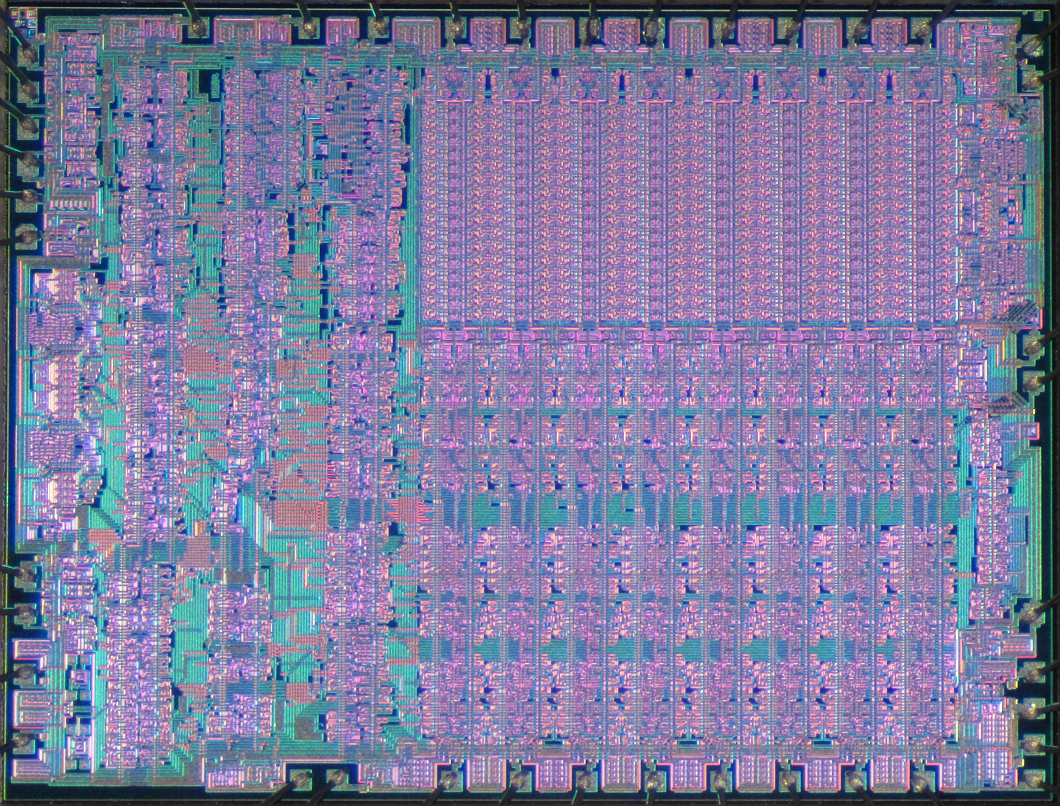 Die shot of RCA 1802 microprocessor (RCA Z CDP1802ACD).